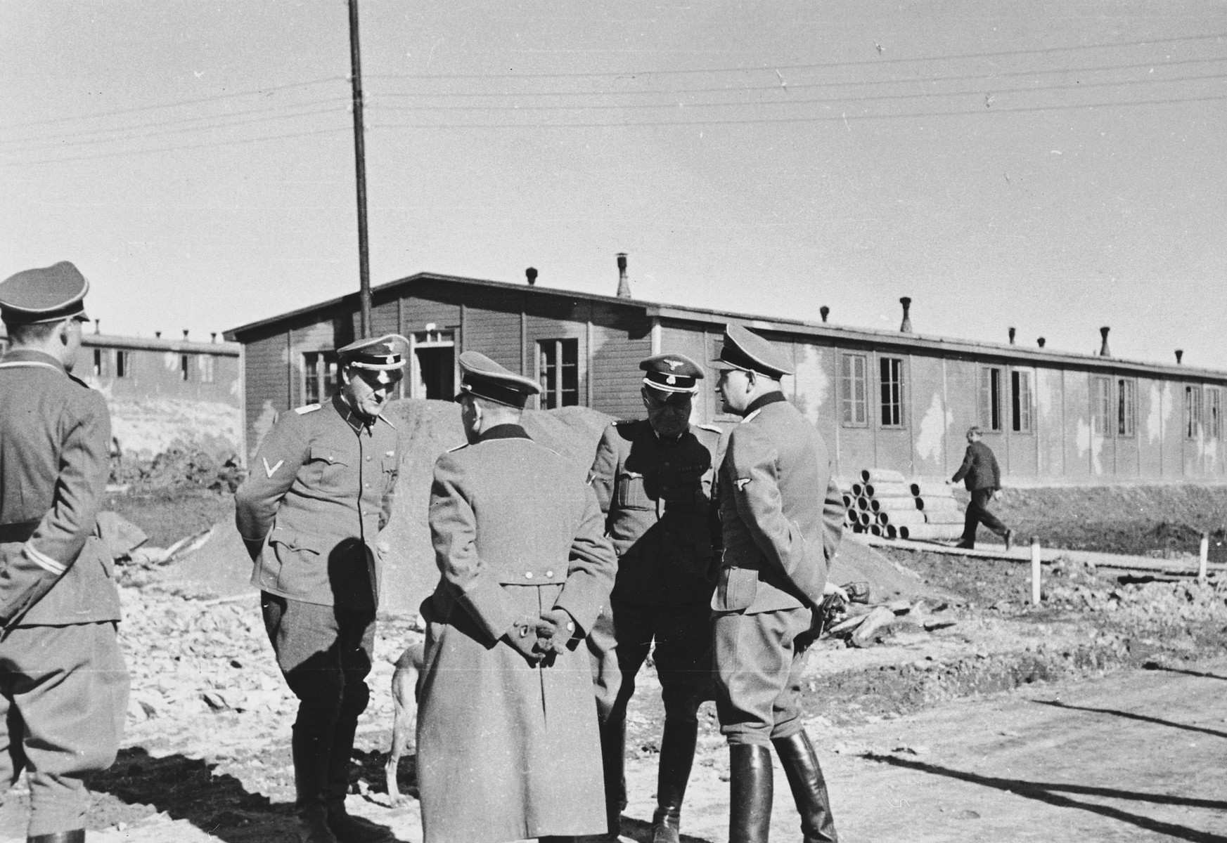 A group of SS officers converse outside at a construction site in the Hinzert concentration camp.